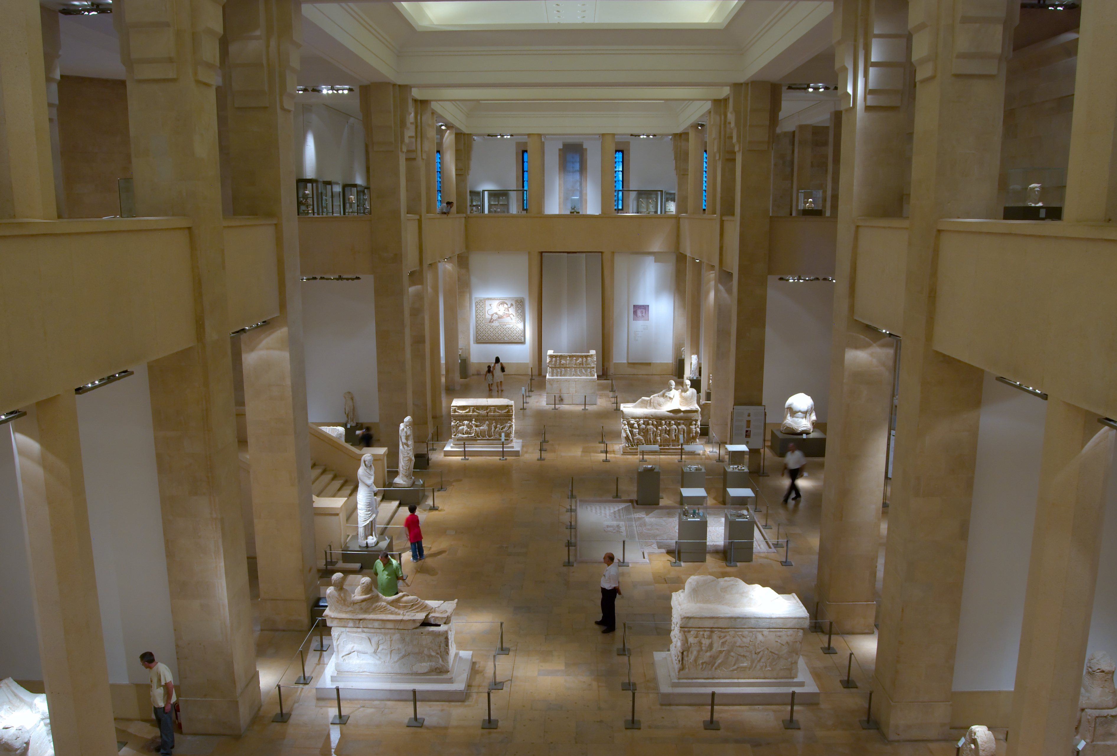 Interior of the National Museum of Beirut seen from the first floor balcony. Blue light from the far windows due to the tugsten white balance to correct for the incandescent lights